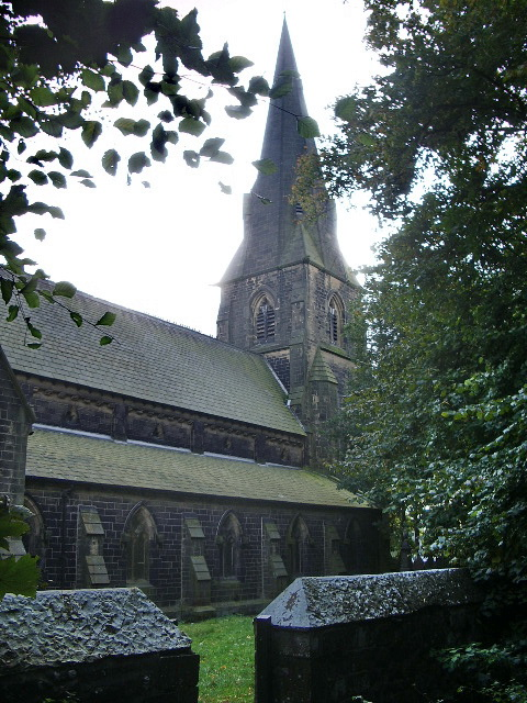 All Saints with St John the Baptist parish church, Padiham Road, Habergham, Burnley, Lancashire, seen from the northeast